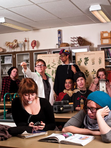 A picture from a classroom at Vindelns folkhöskola in northern Sweden.